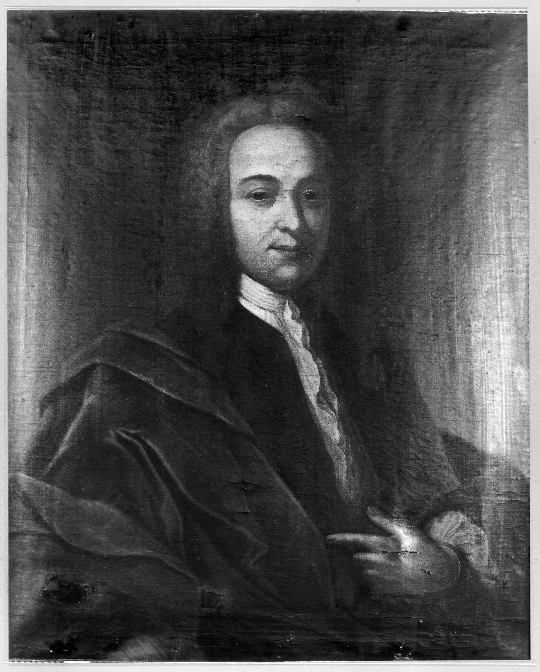 Johan Cornelis Radermacher (1700-1748), Alderman and City Council of Middelburg, Treasurer and General Steward of the Domains, in service of the States General. Radermacher was the first Grandmaster of the Dutch Freemasons.